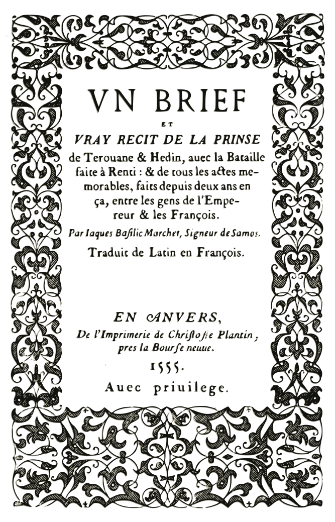 Title page of Un brief et vray récit de la prinse de Térouane et Hédin, avec la bataille faitte à Renti etc., by "Jaques Basilic Marchet" (better known as Iacob Heraclide, or Despot Vodă).